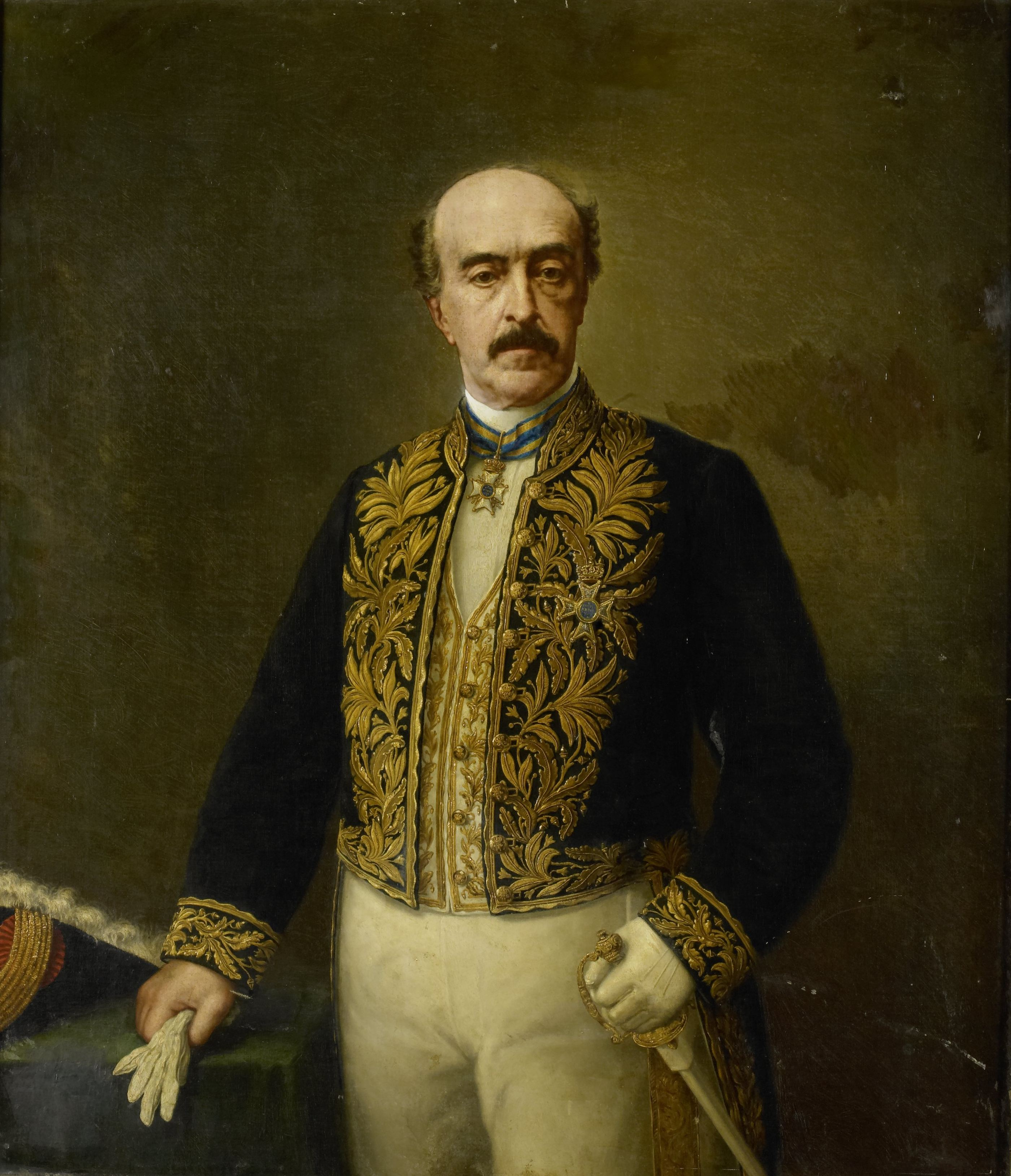 Image of Otto van Rees (1823-1892), Governor General of the Dutch East Indies from 1884 till 1888. 106 x 92.5 cm